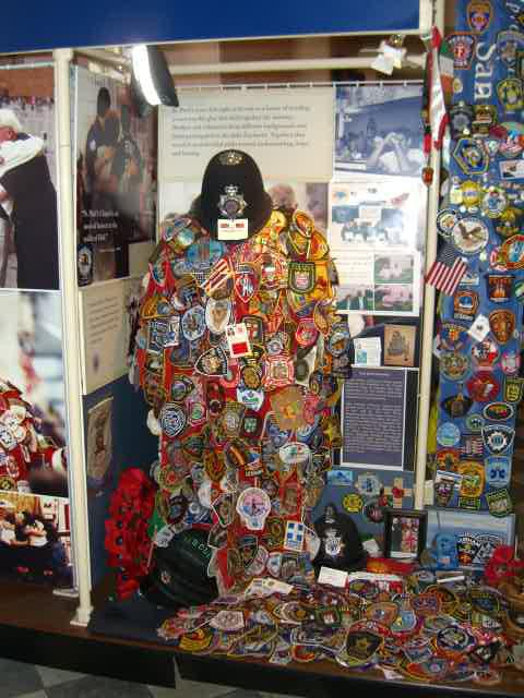 "Healing Hearts and Minds", an exhibit inside Saint Paul's Chapel in Manhattan, one block from the World Trade Center site. Photographed by Luigi Novi. This photo is not in the public domain. It may, however, be used, modified and published for any purpose, free of charge, only if an easily visible credit to the photographer is placed near the photo in each instance in which it is used. (See licensing information below.) Publication of this photo without this proper attribution constitutes copyright infringement. For more information on my photos, you can contact me here.